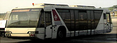 Neoplan Airport Bus